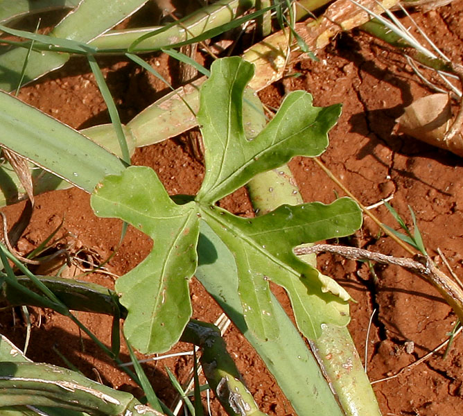 Cissus quadrangularis- Veldt Grape or Devil's Backbone, Asthisamharaka- in Herbal Garden, in Rangareddy district of Andhra Pradesh, India.